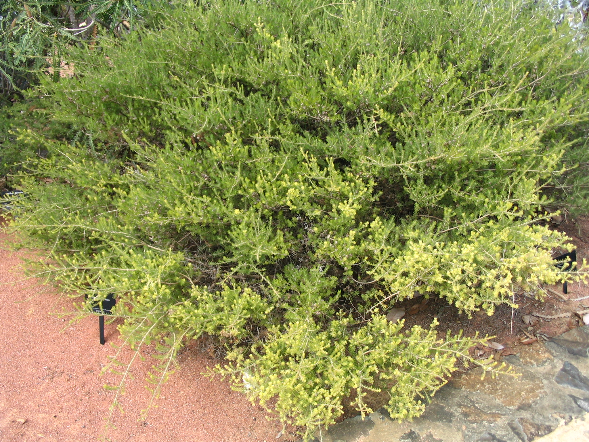 Eremaea ebracteata plant in Kings Park, Perth, Australia.